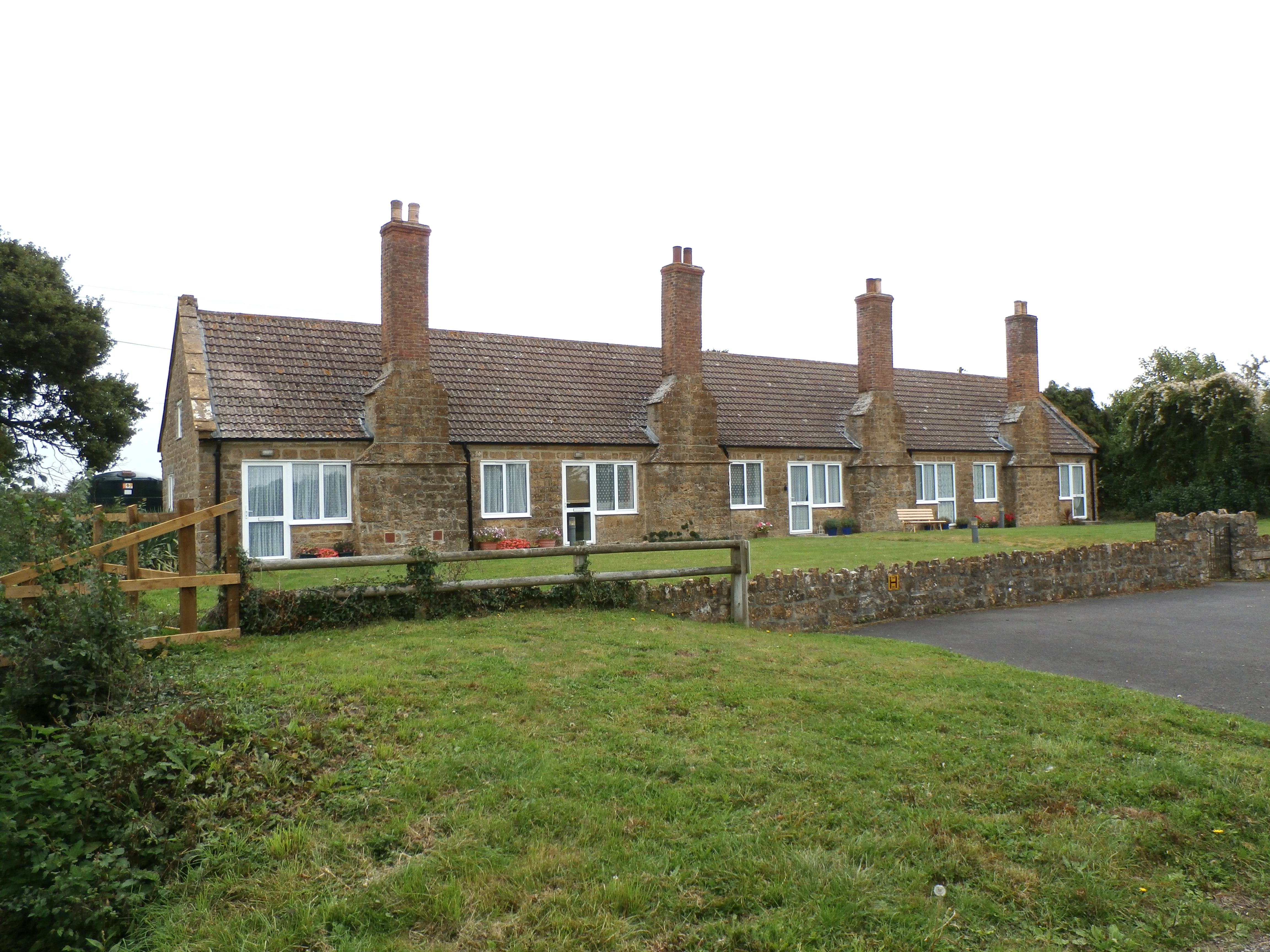 Almshouses built by Sir John Wyndham (1558-1645) of Orchard Wyndham, Somerset, on the estate of Merryfield in the parish of Ilton, Somerset. (Collinson, Rev. John, History and Antiquities of the County of Somerset, 3 vols., 1791, Volume I, pp.46-50)